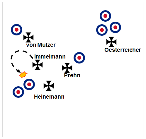 Immelmann last dogfight on 18 June 1916 Page 4